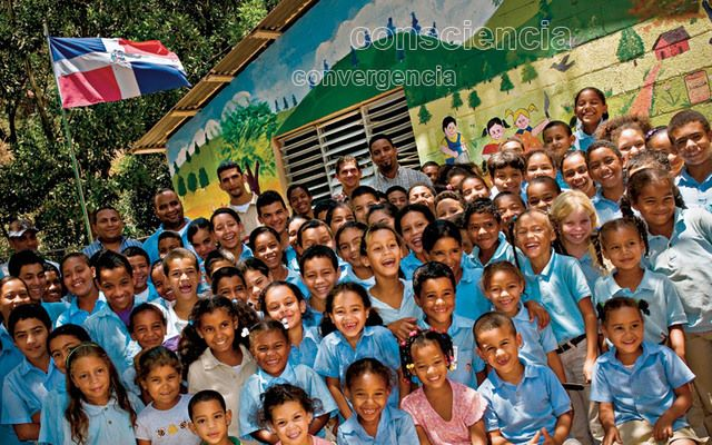 Group picture of typical Dominican elementary school students